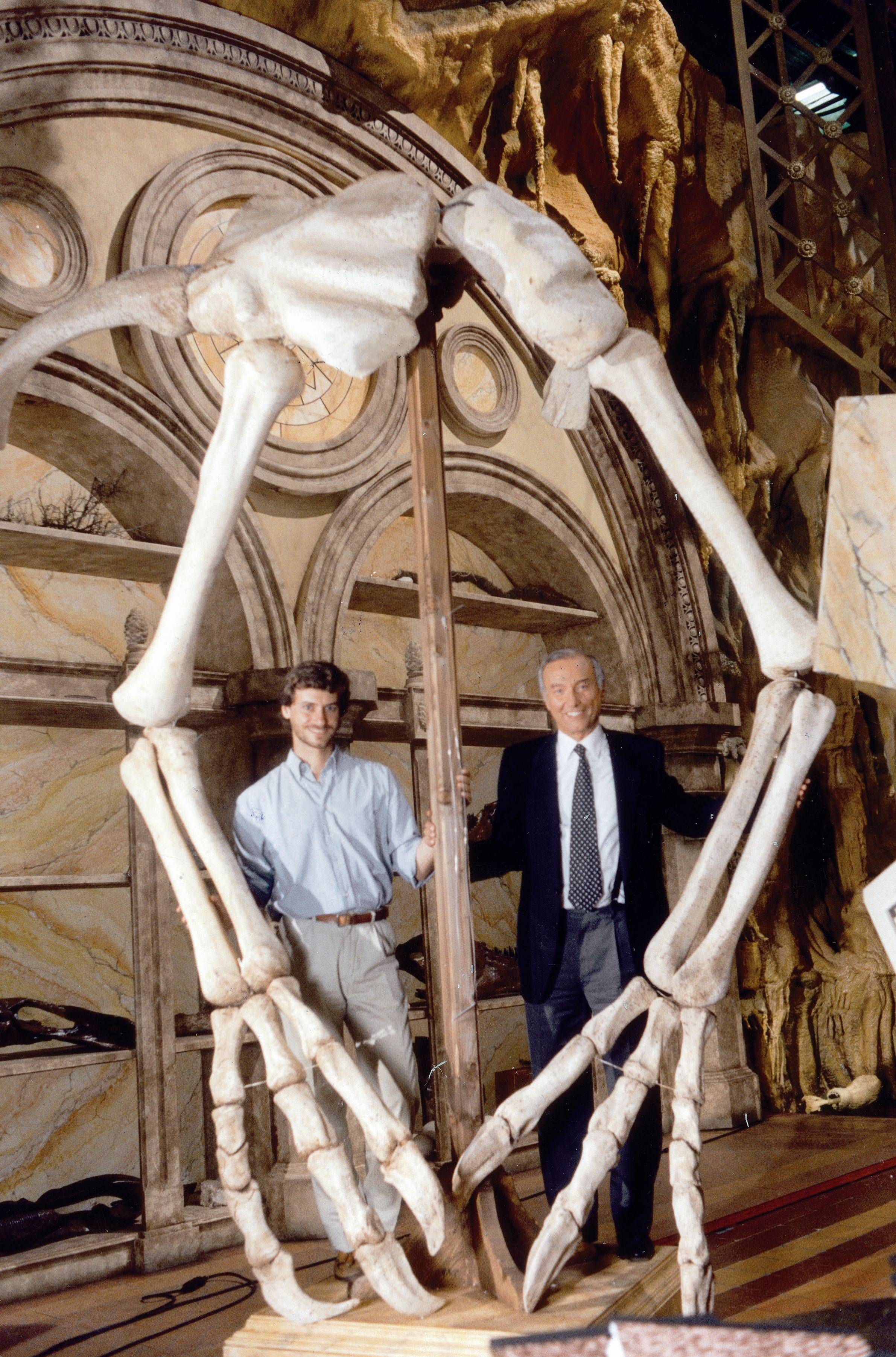 Piero and Alberto Angela.